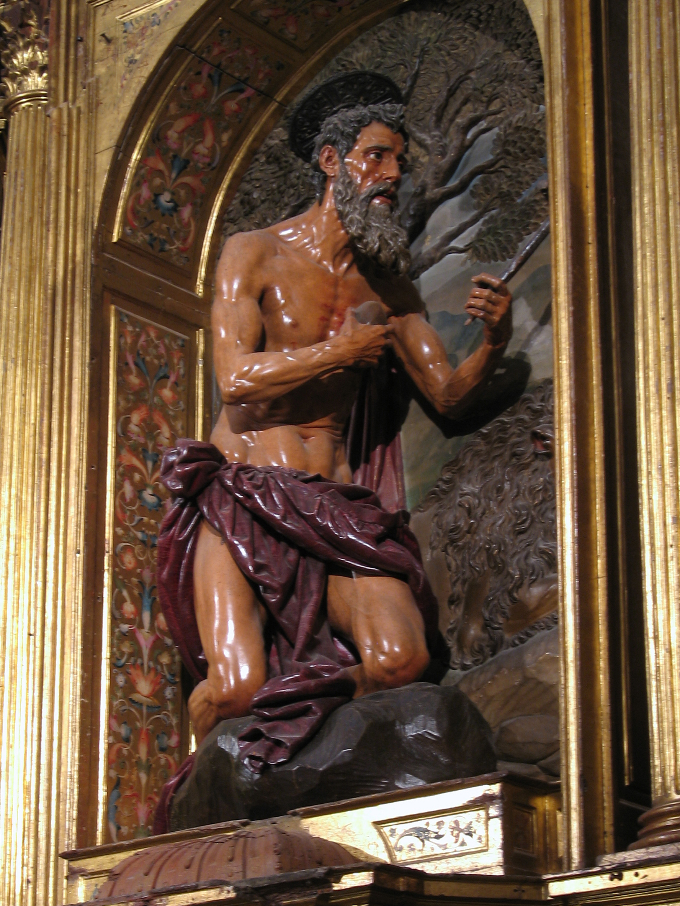 Saint Jerome (ca.1613) by Juan Martínez Montañés. San Isidoro del Campo at Santiponce, near Seville.